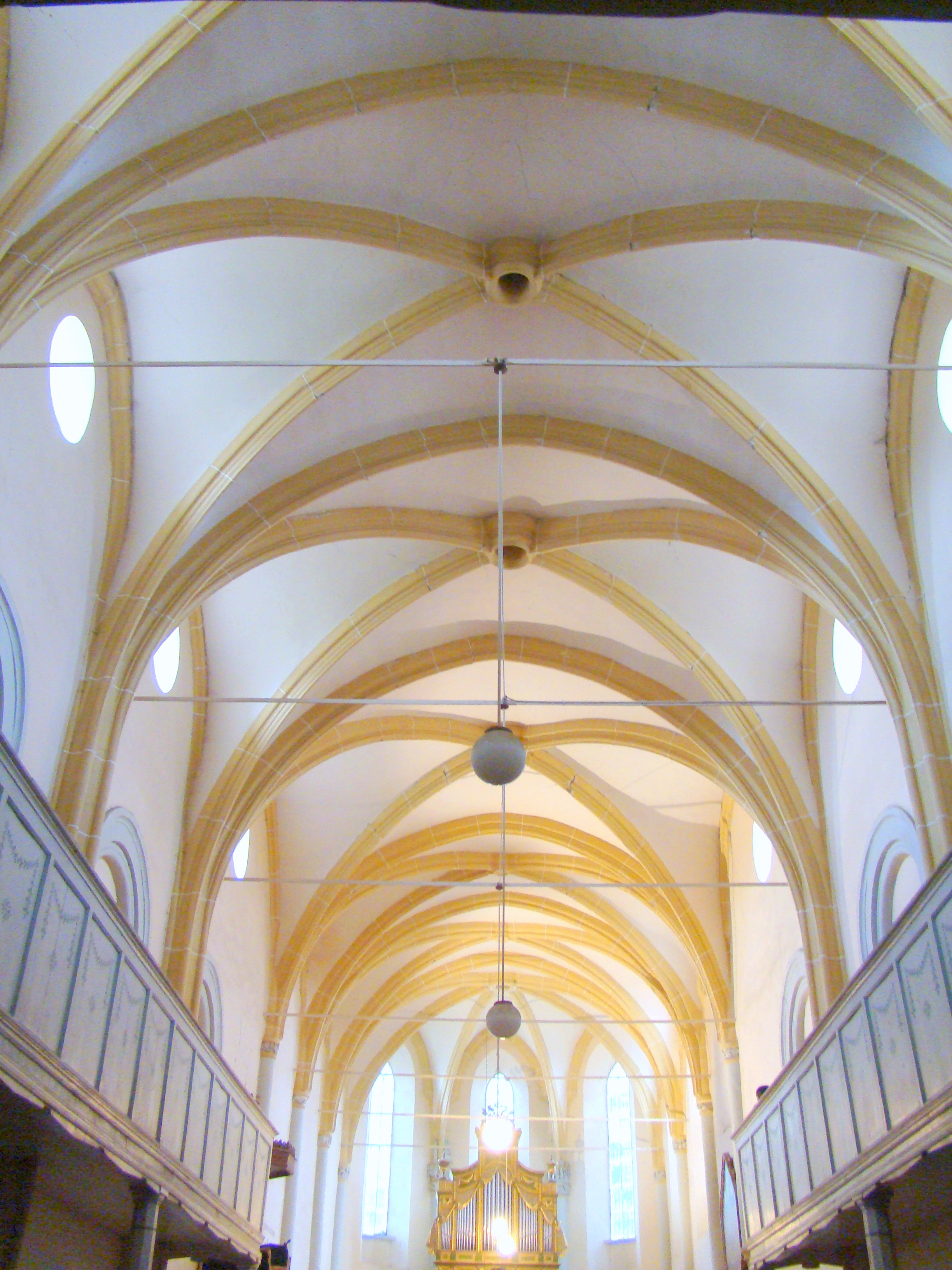 Lutheran church in Feldioara, Brașov County, Romania